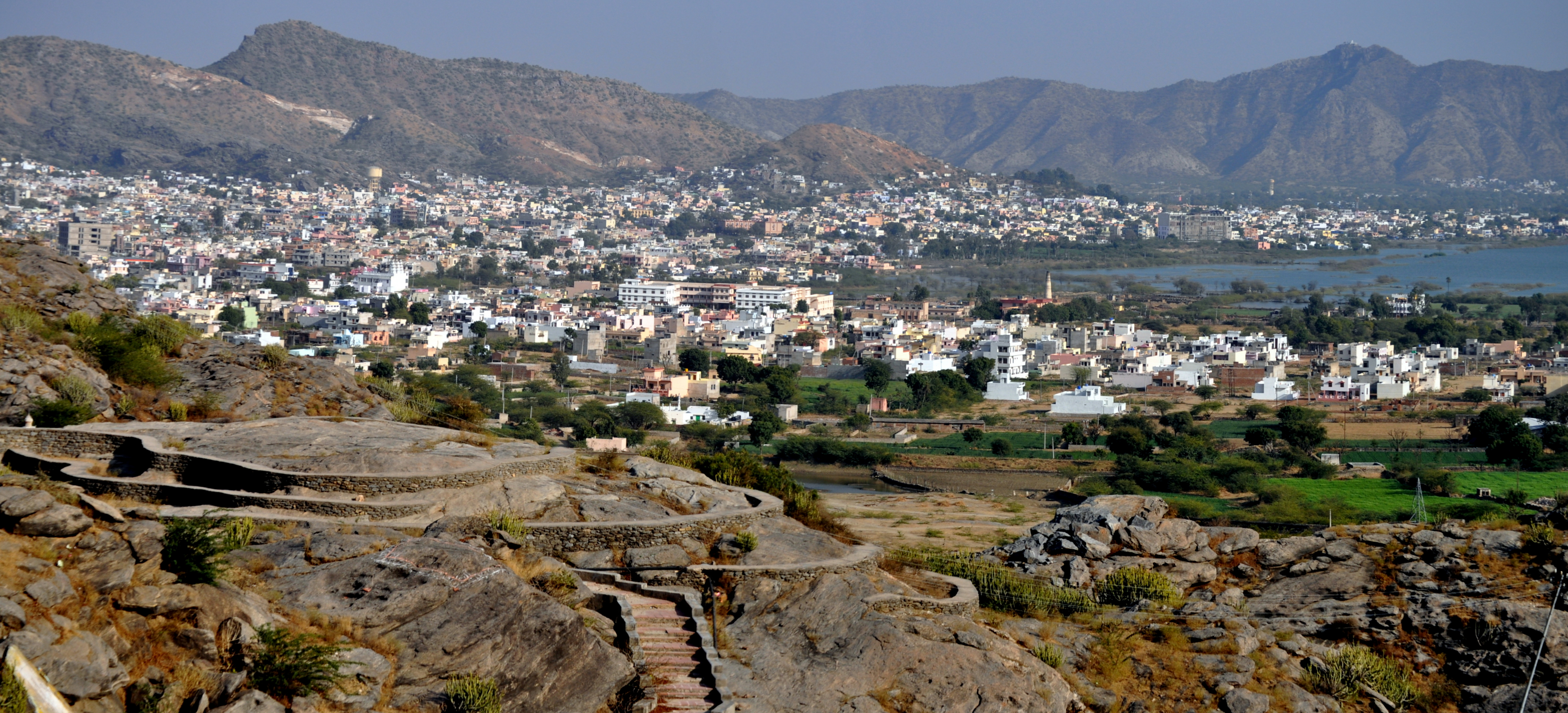 Historical Importance